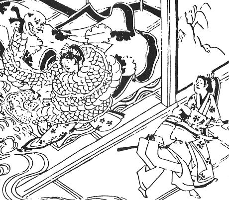 Shokoku Hyakumonogatari